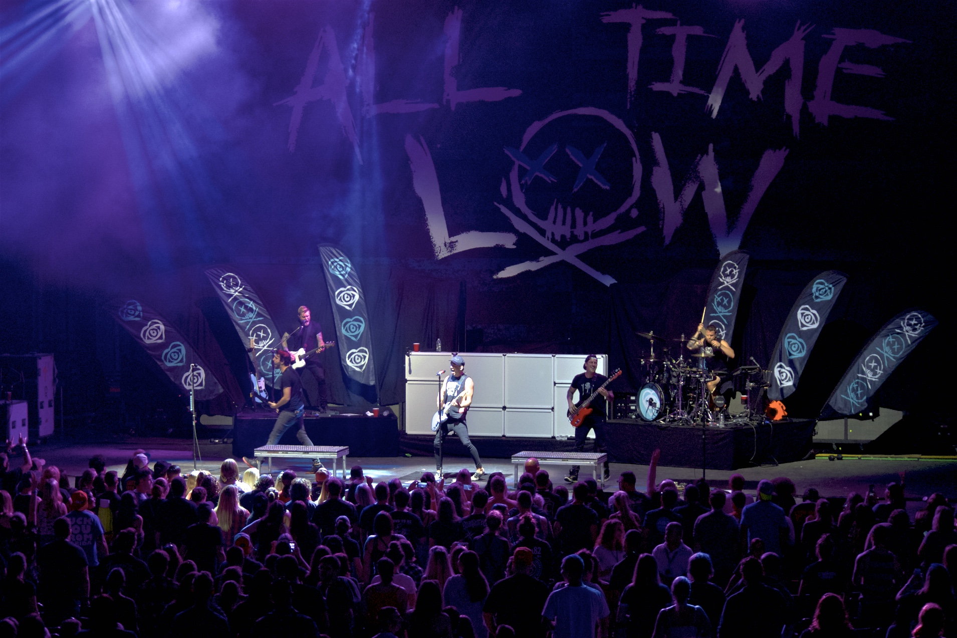 All Time Low performing at the Saratoga Performing Arts Center in Saratoga Springs, NY on 09/04/16.